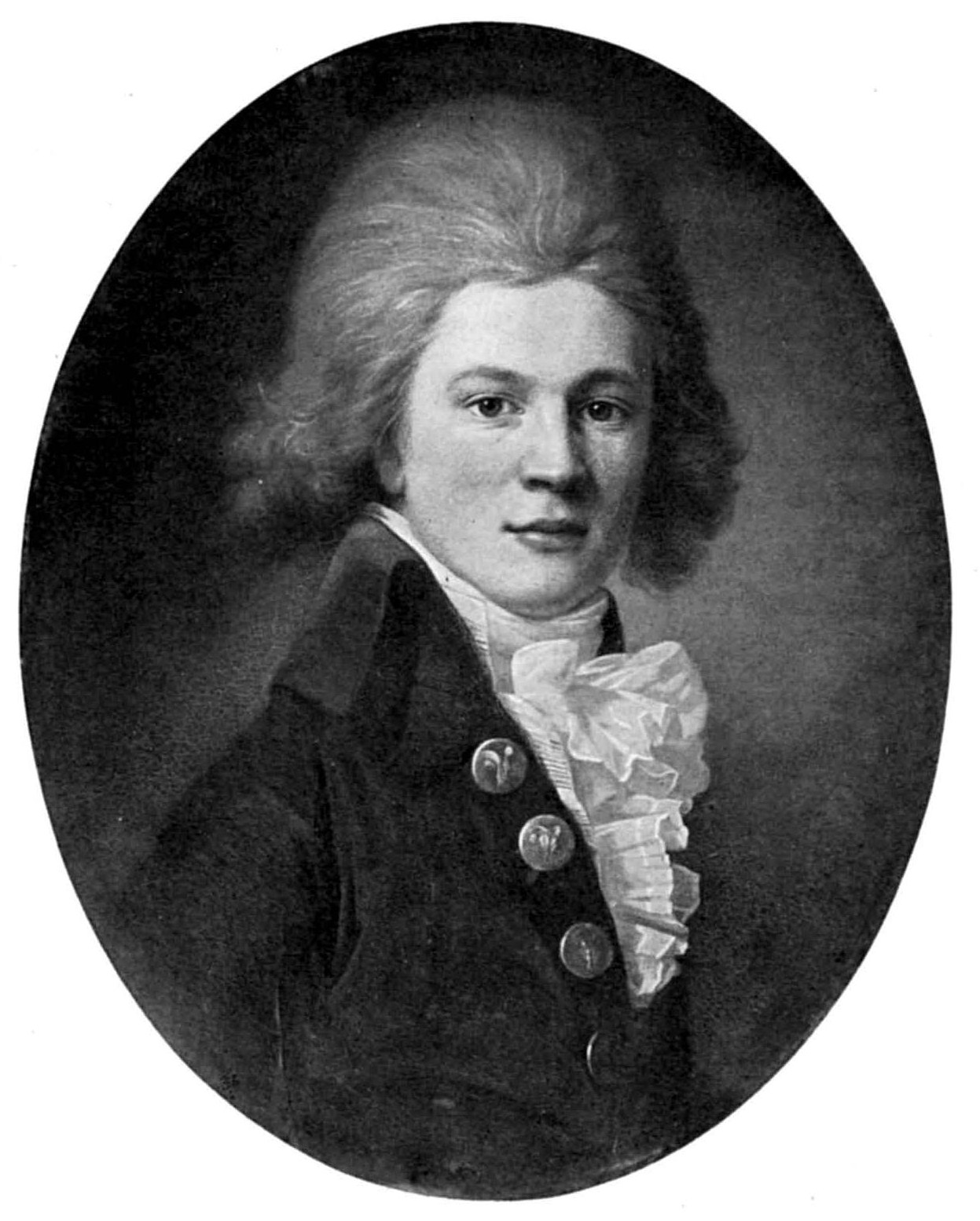 Portrait of Pavel Stroganov (1772-1817)